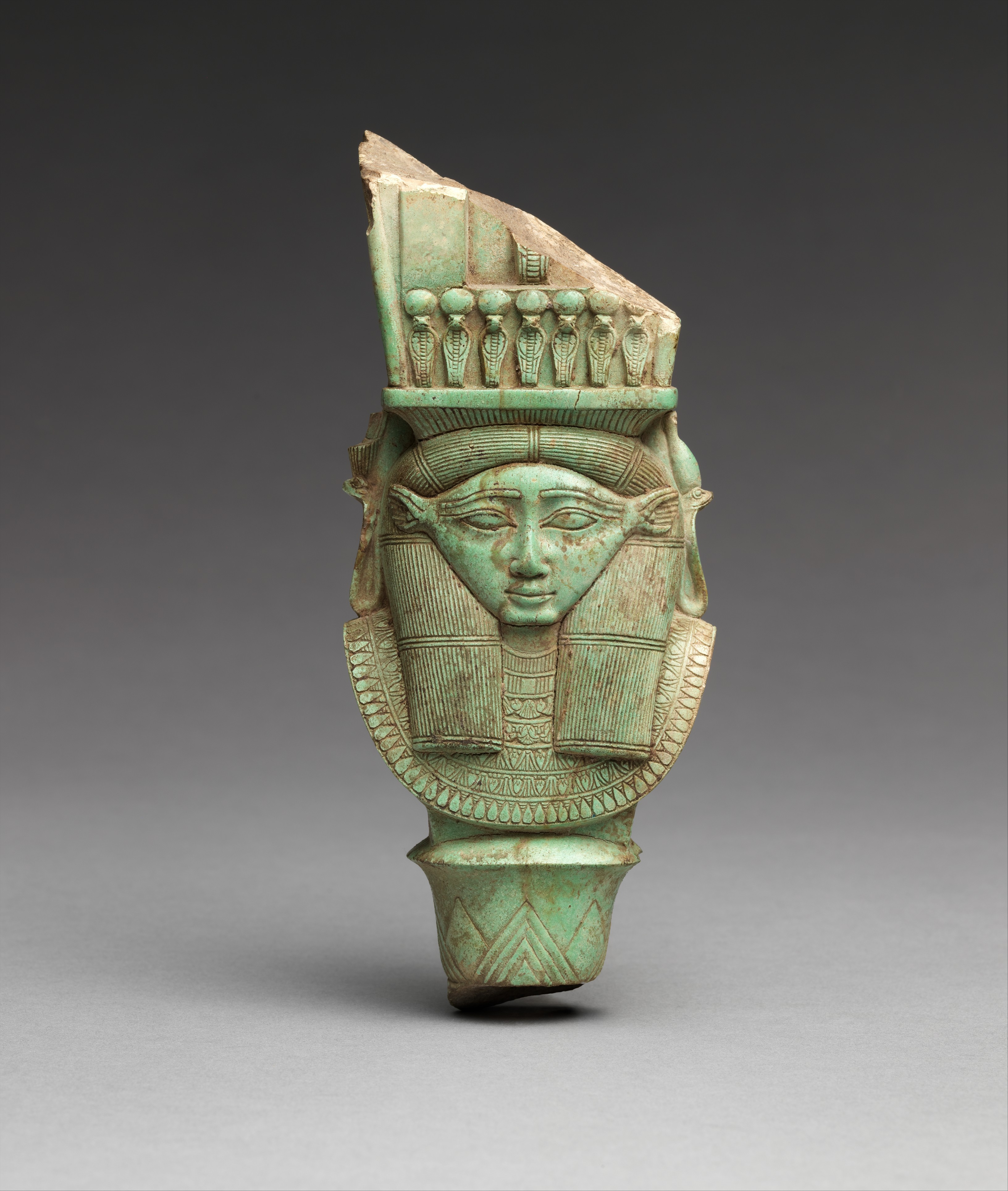 Sistrum fragment, Hathor